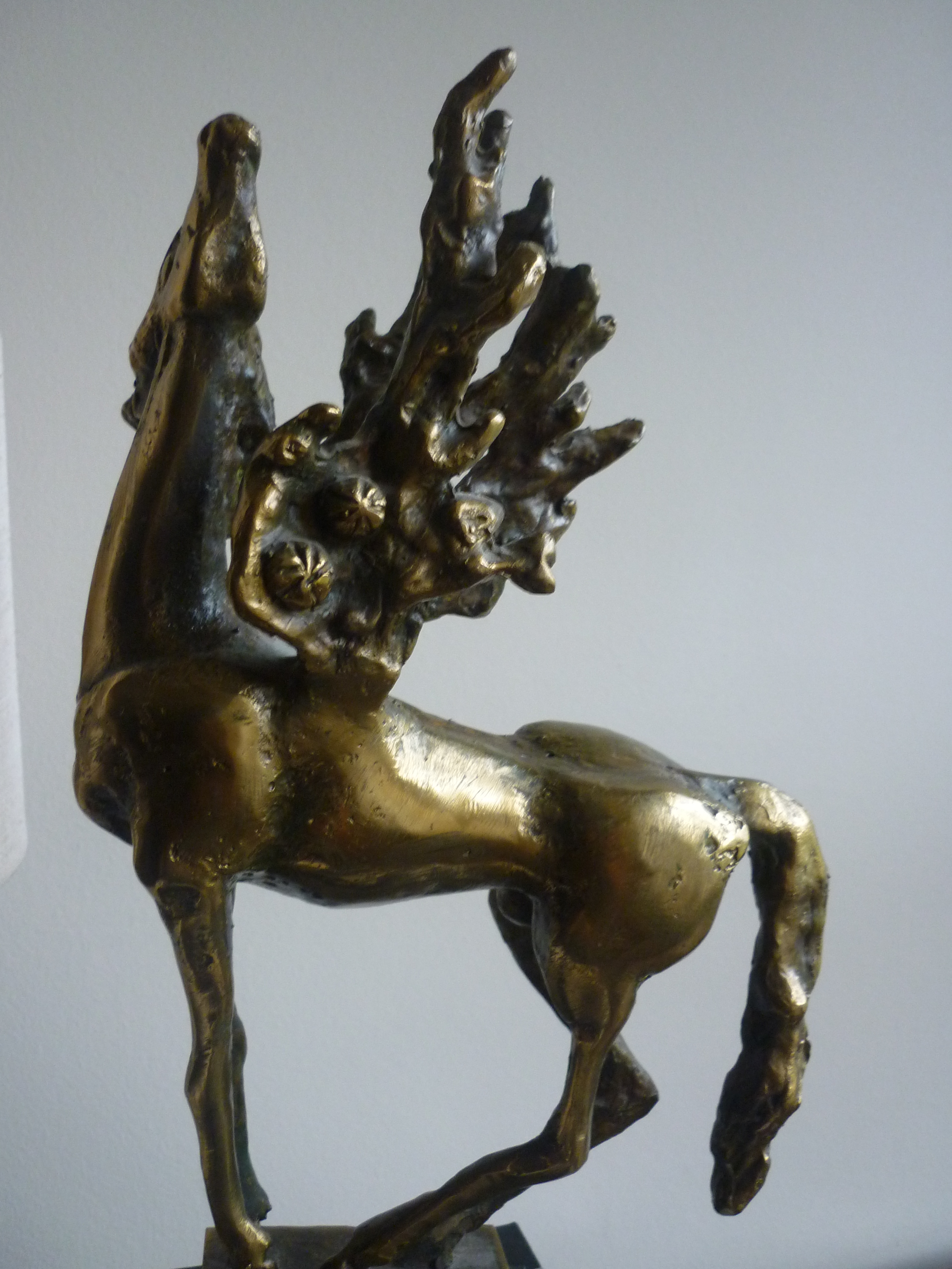 The trophy of the Yuzhna prolet (Southern Spring) Award by Georgi Tschapkanov